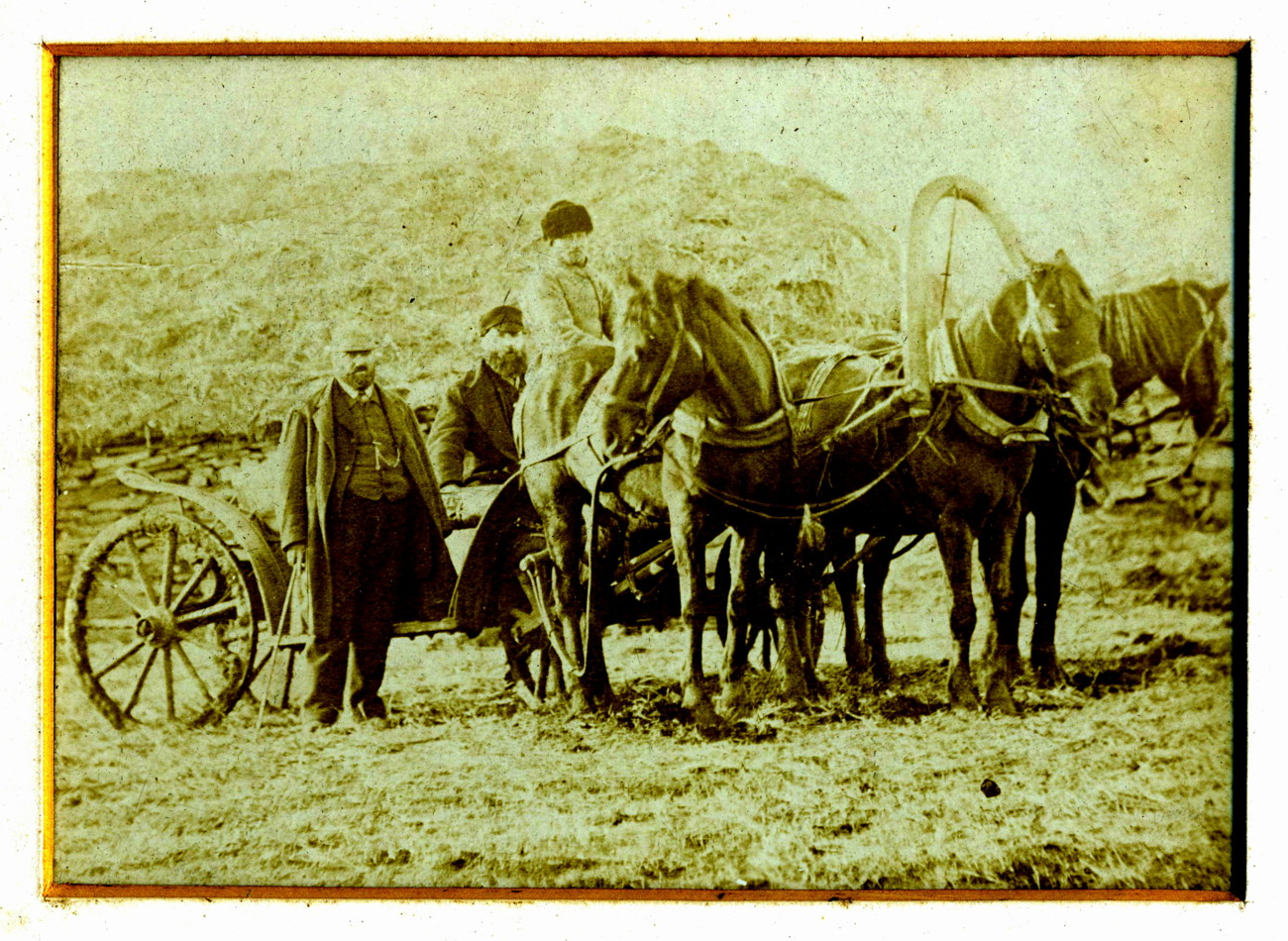 Troika - In the image foreground is the Chief Mining Geologist for the New Russia Company - Edwin James Williams - taken in the countryside near Hughesovka - Edwin James Williams is the Great Great Grandfather of Dr David E. Probert, and the Original Photo has been preserved in the Probert Family Archives